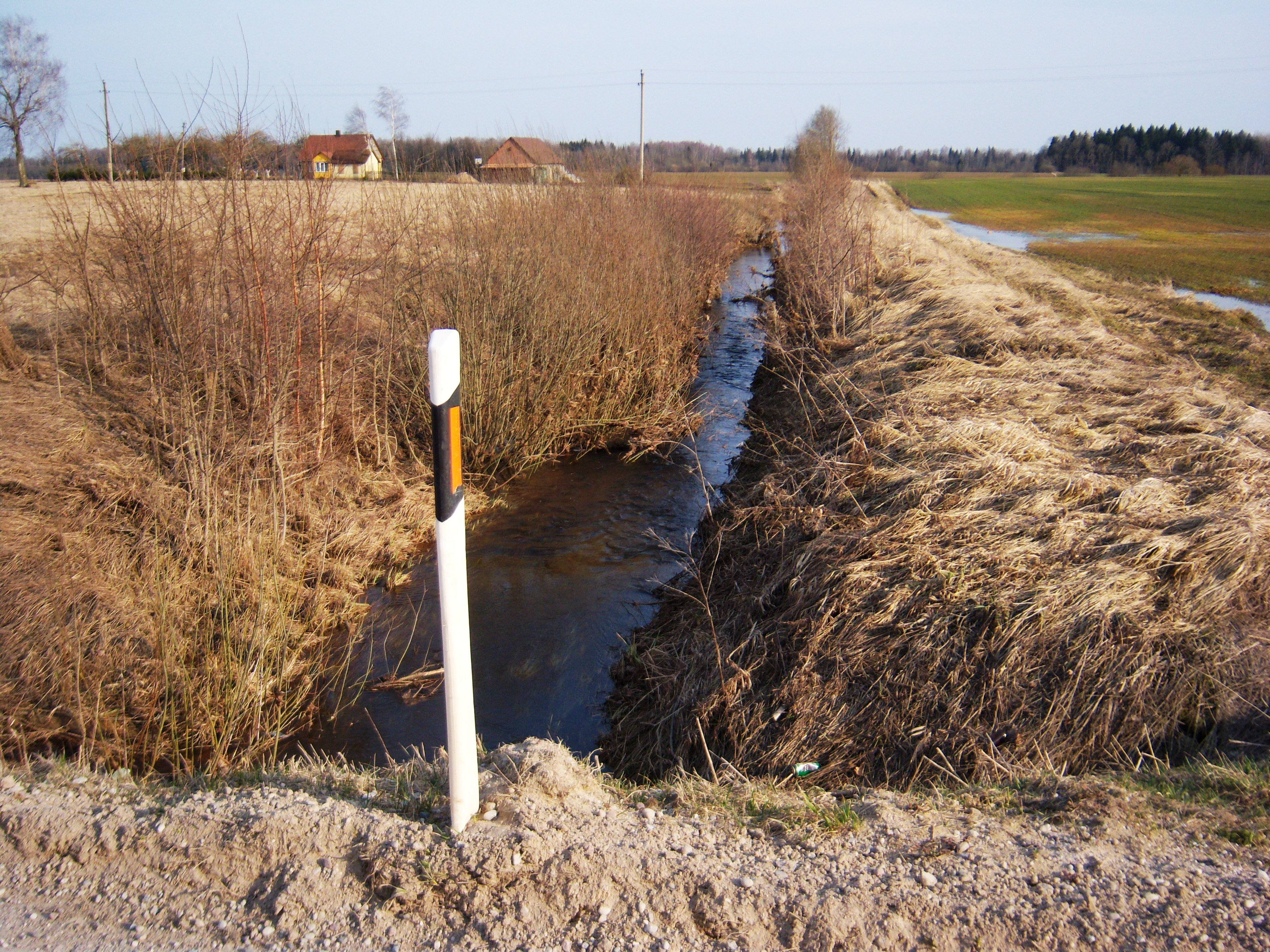 Gausantė stream after winter, Raseiniai district, Lithuania